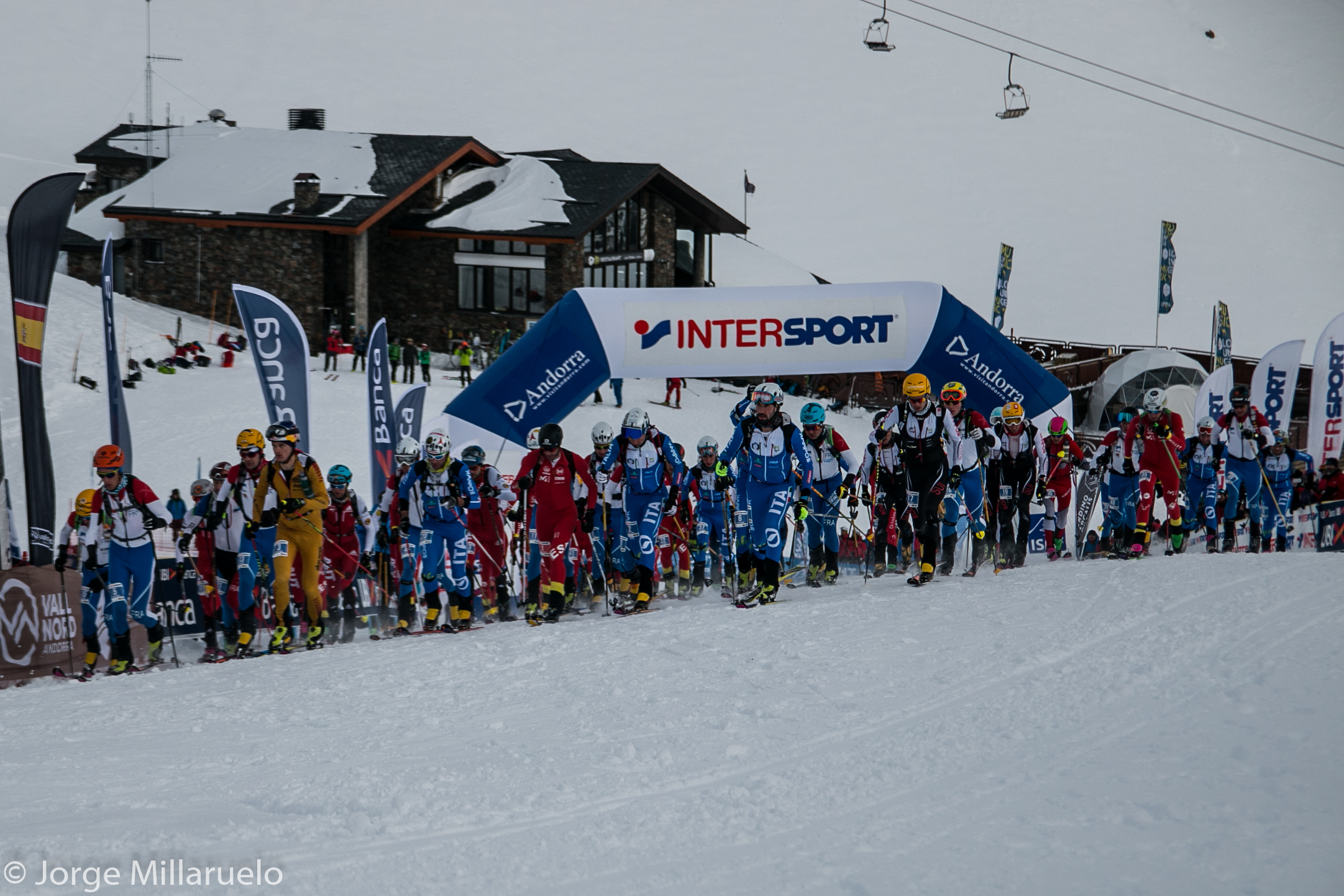 ISMF Ski Mountaineering World Cup Font Blanca 2017 - Individual Race